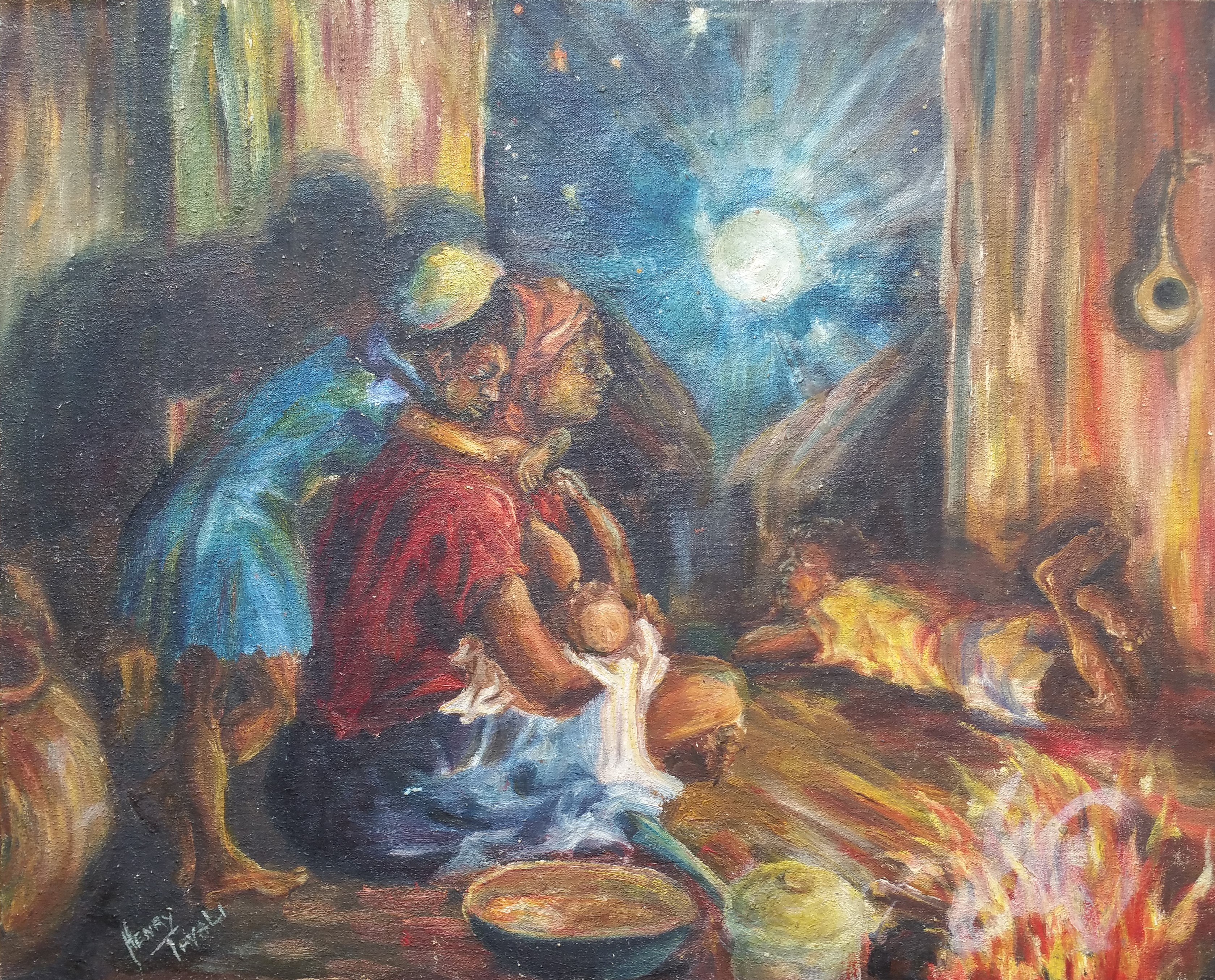 An early water colour painting by Zambian artist Henry Tayali.